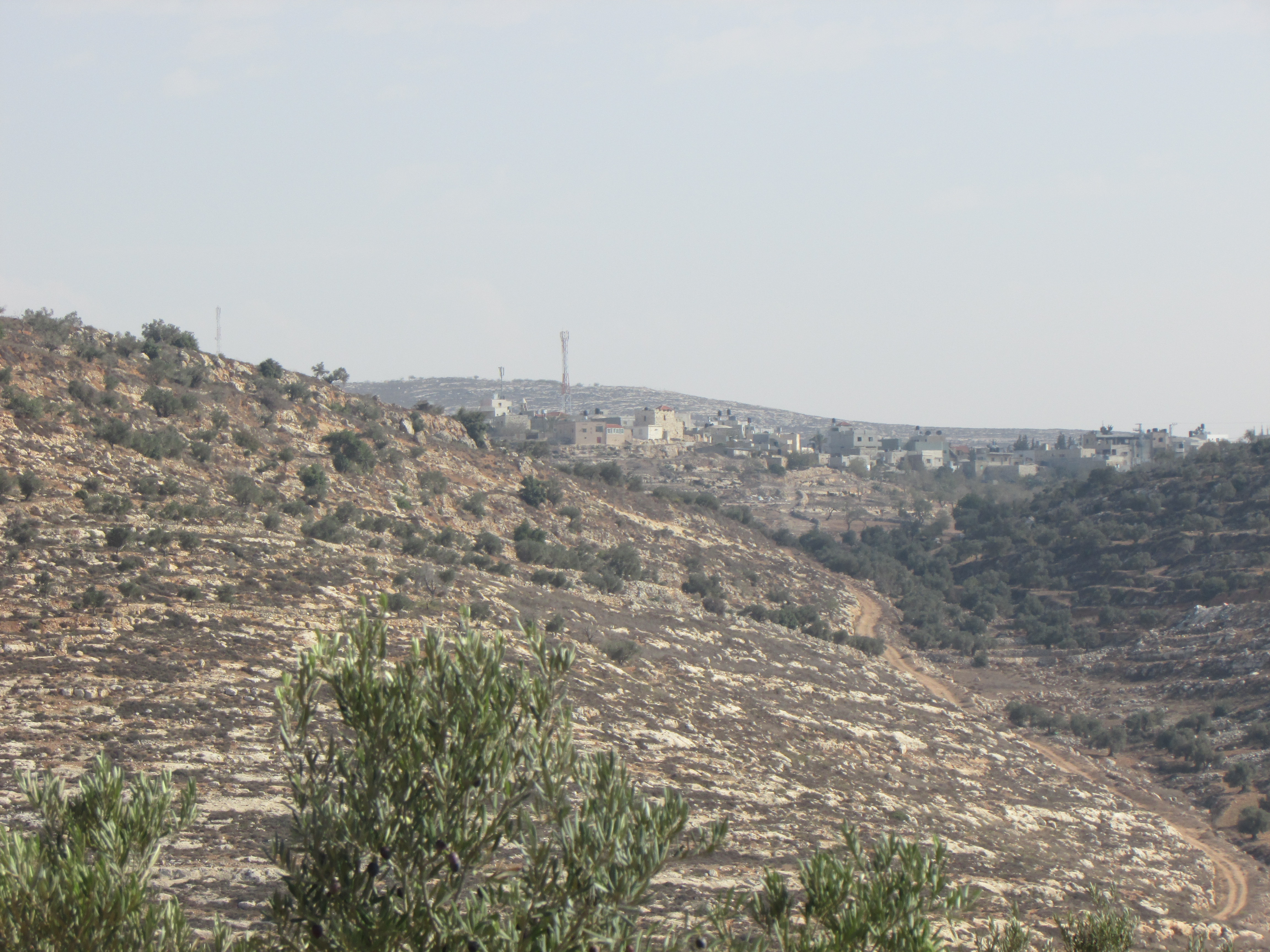 Qaryut from Givat Harel